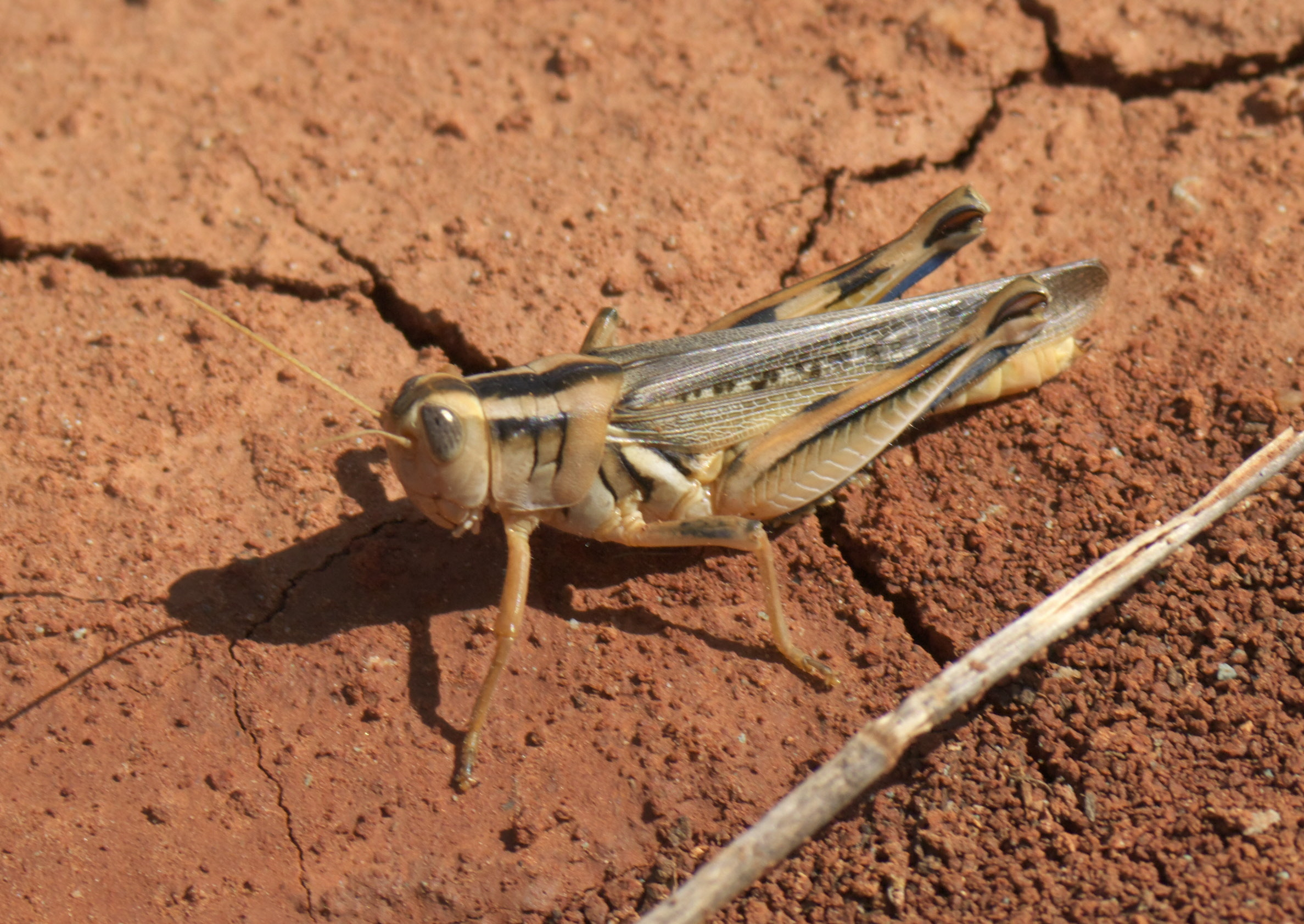 Melanoplus packardii, Packard's Grasshopper, female, ID Confidence: 98